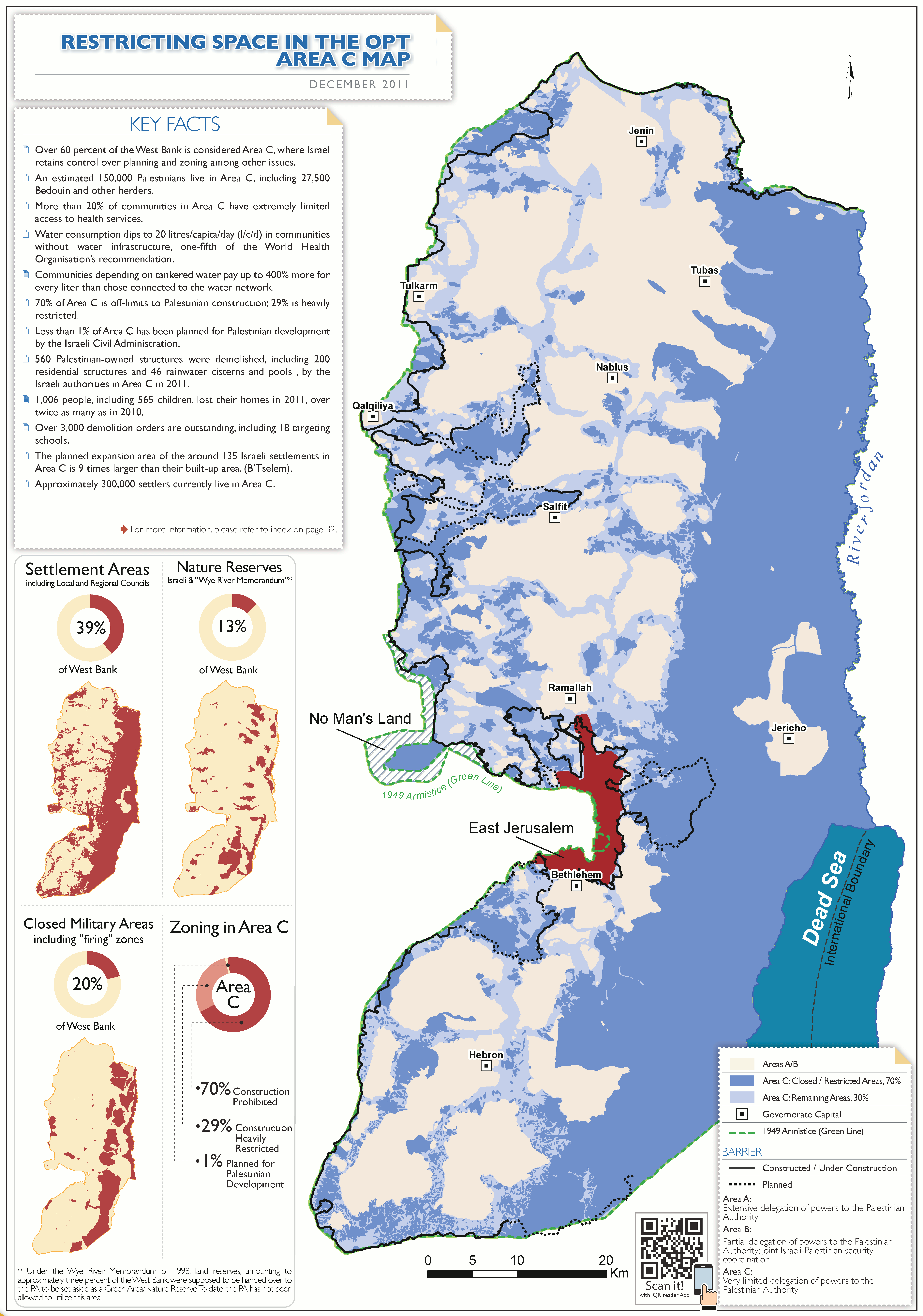 Restricted space in the West Bank, Area C. Originally published by OCHAoPt in December 2011. UN name and logo removed.